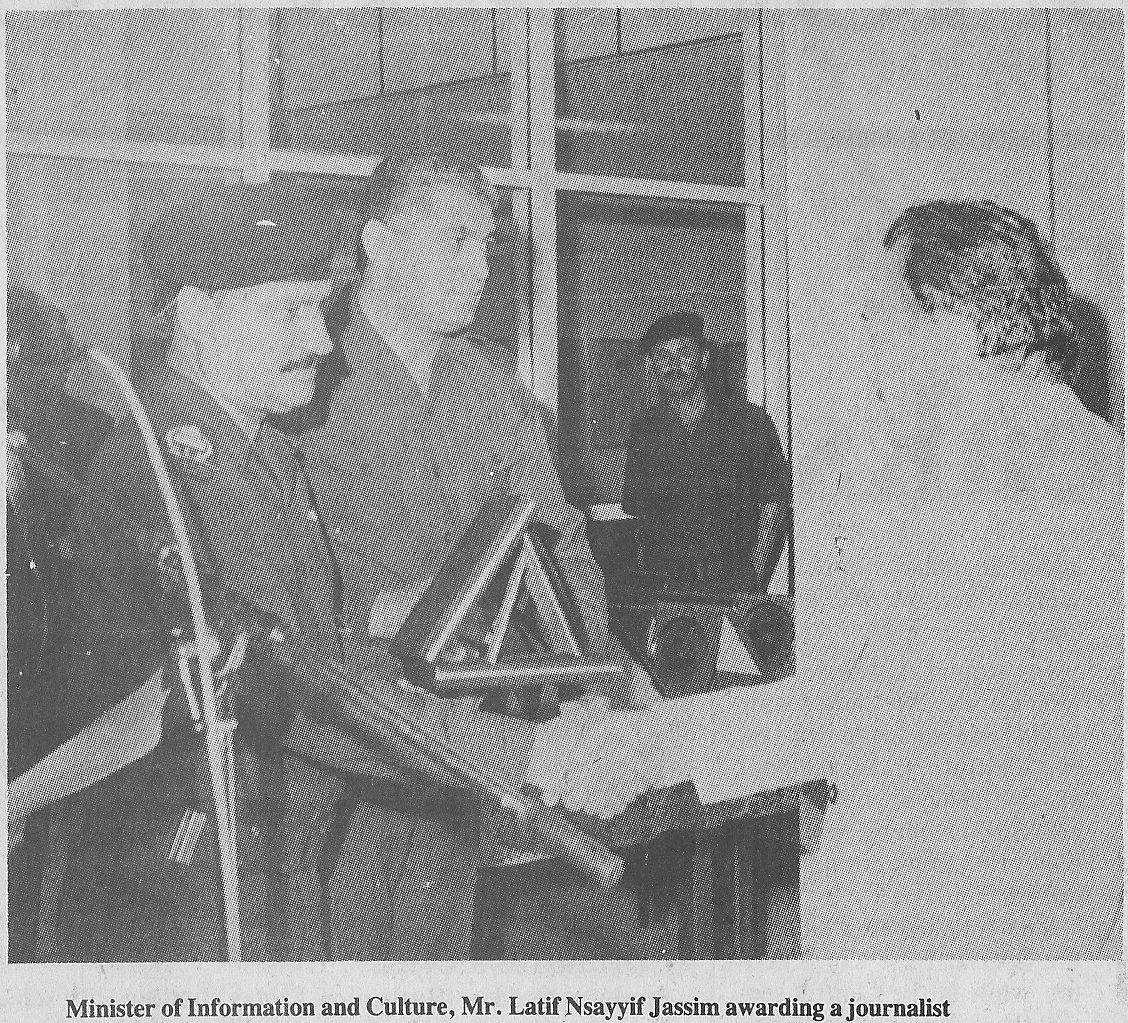 Mr. Latif Nsayyif Jassim (left), Iraqi Minister of Information and Culture